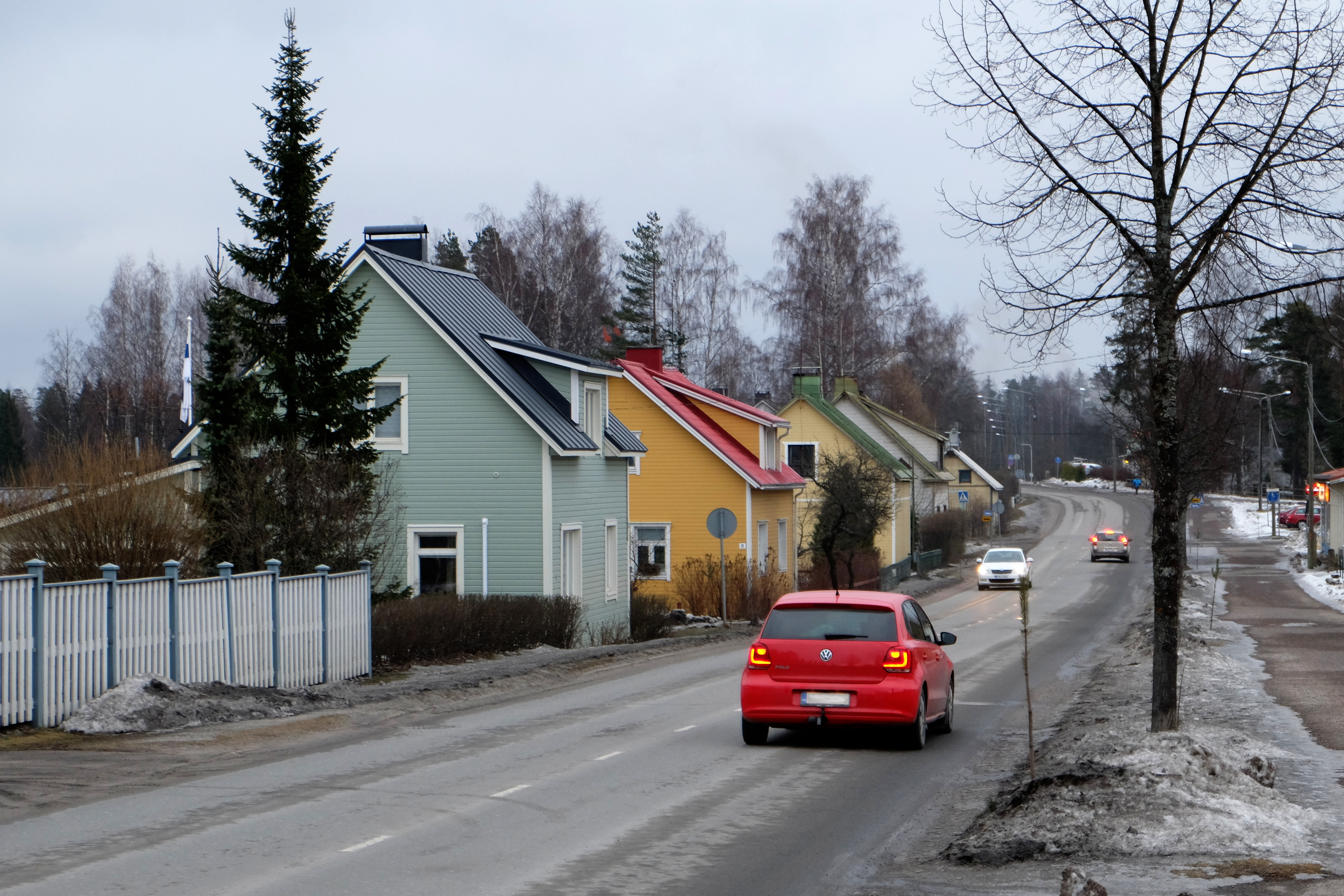 Wooden houses typical for Uus-Lavola suburb in Lappeenranta, Finland.